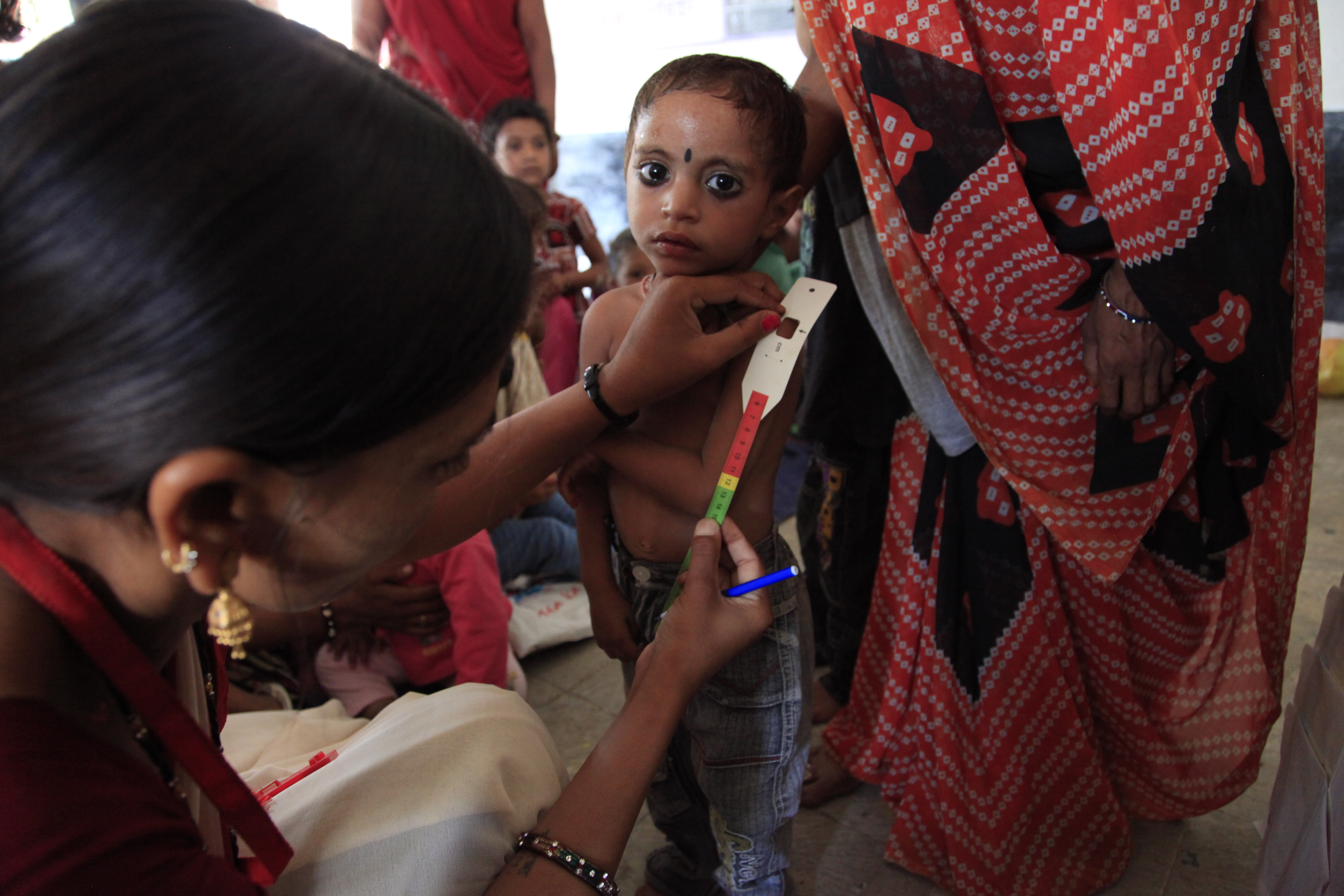 A child’s upper arm is measured at an Anganwadi centre in the village of Baggad, in Madhya Pradesh’s Dhar district. This is a quick and simple way to check if a child is severely underweight as they have a 10-30% chance of death without treatment. Eliminating undernutrition would boost wages by up to 50% and make children 33% more likely to escape poverty as adults. In addition, children who are not stunted are 28% more likely to undertake skilled jobs. UK aid is working with the Madhya Pradesh state government to ensure that more children are reached with nutrition services, such as regular screening. Picture: Russell Watkins/Department for International Development (14 May 2013)